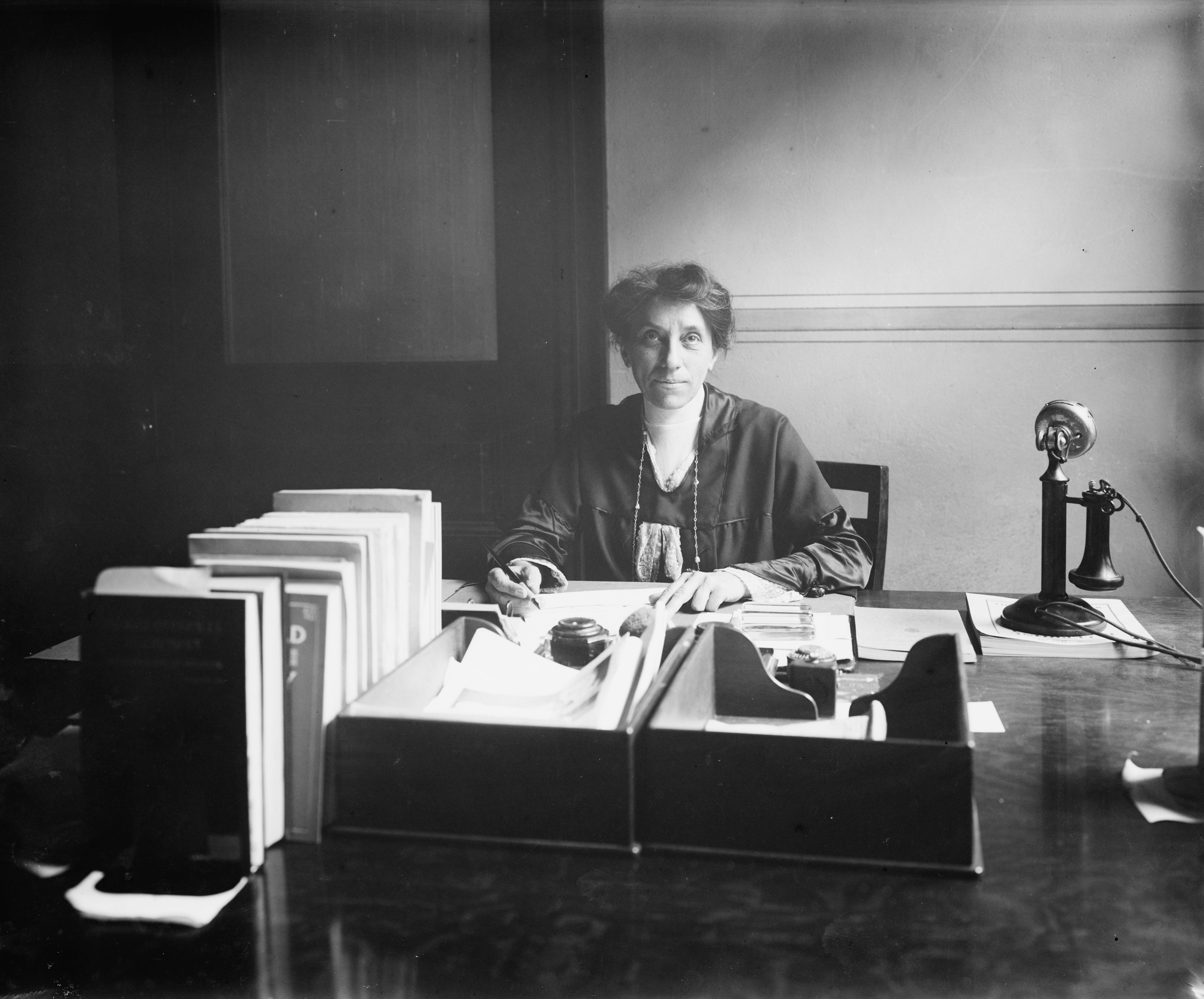 Title: Miss Julia Lathrop Abstract/medium: 1 negative : glass ; 8 x 10 in. or smaller